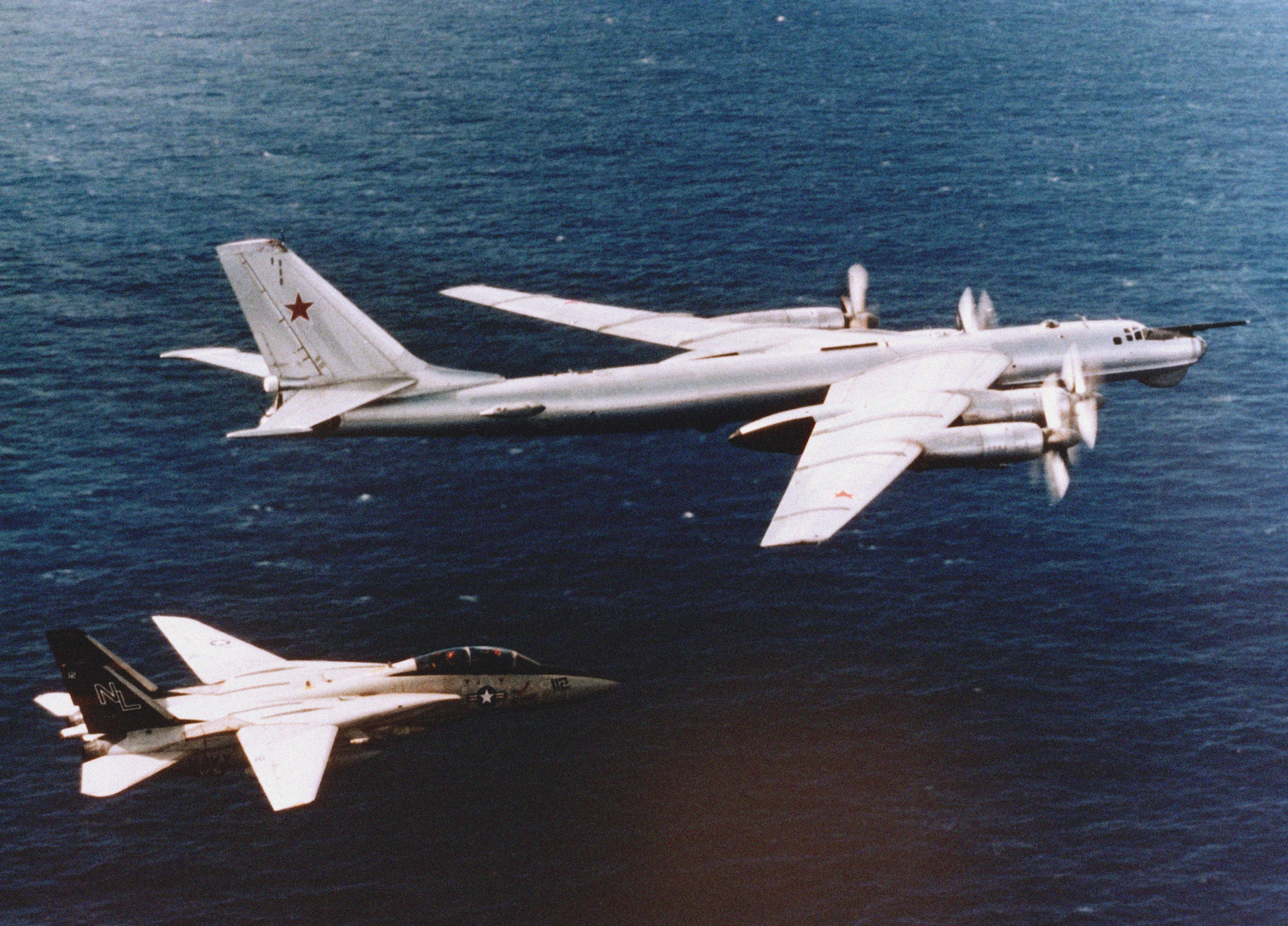 A U.S. Navy Grumman F-14A Tomcat intercepting a Soviet Tupolev Tu-95RTs (Razvedchik Tseleukazatel) - Nato reporting name Bear D - reconnaissance-bomber over the Pacific Ocean on 21 November 1984. The F-14 (BuNo 160687) was assigned to fighter squadron VF-51 Screaming Eagles, Carrier Air Wing 15 (CVW-15), aboard the aircraft carrier USS Carl Vinson (CVN-70) for a deployment to the Western Pacific and the Indian Ocean from 18 October 1984 to 24 May 1985. F-14A 160687 (c/n 306) was retired to the AMARC as 1K0113 on 9 October 1997.